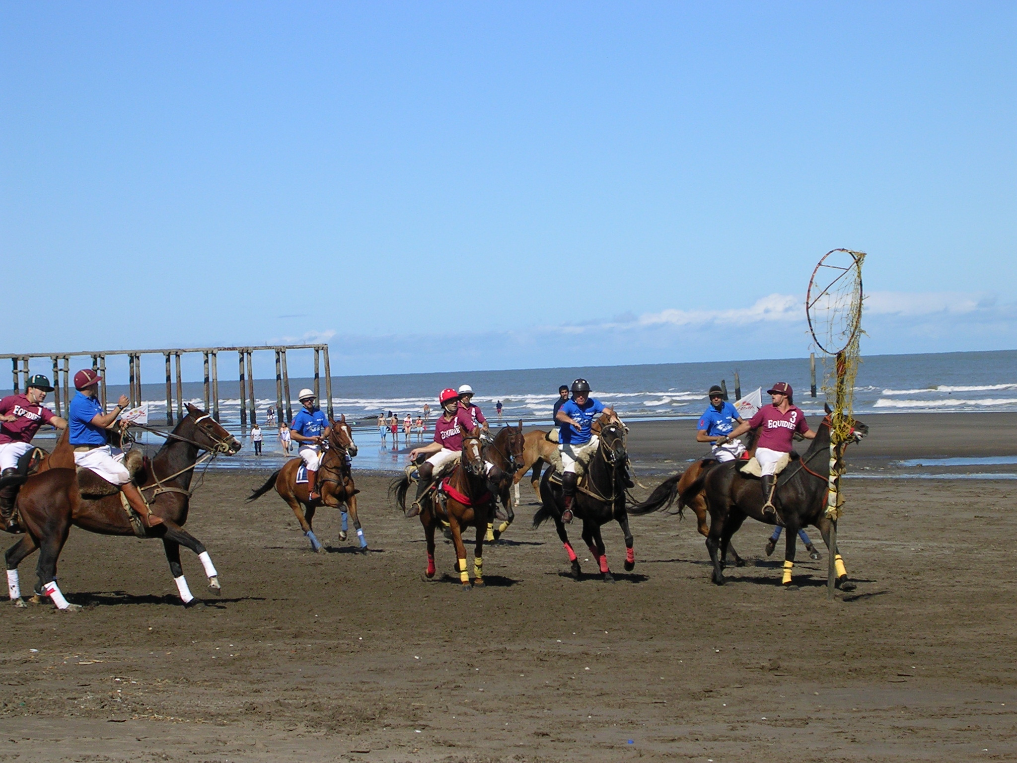 Pato game in Monte Hermoso, Argentina, March 2007 Y1997xf11 01:49, 25 April 2007 (UTC)